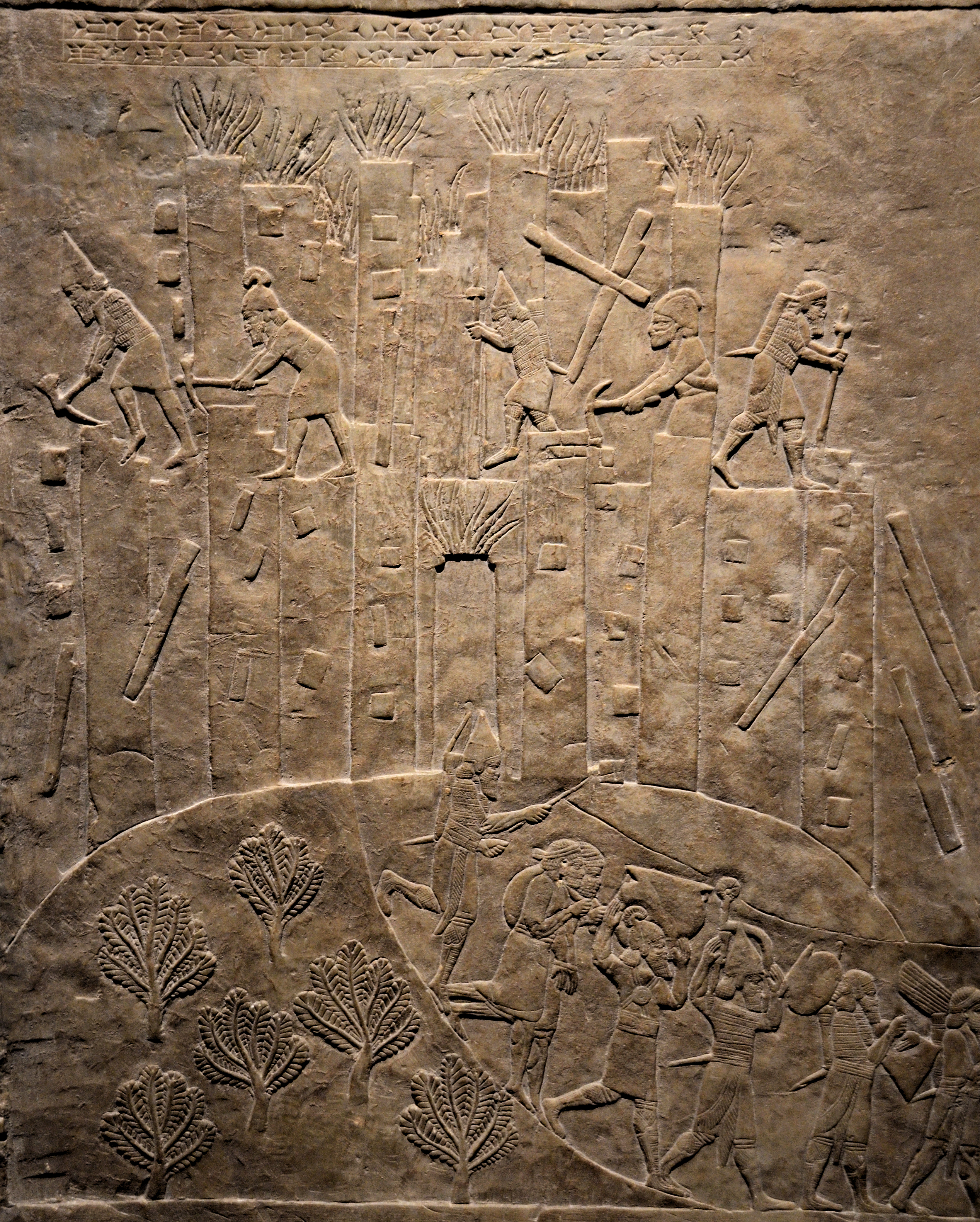 Relief depicting the destruction of Susa of Elam by Ashurbanipal, 645-640 BC, North Palace, Nineveh, Exhibition- I am Ashurbanipal king of the world, king of Assyria, British Museum